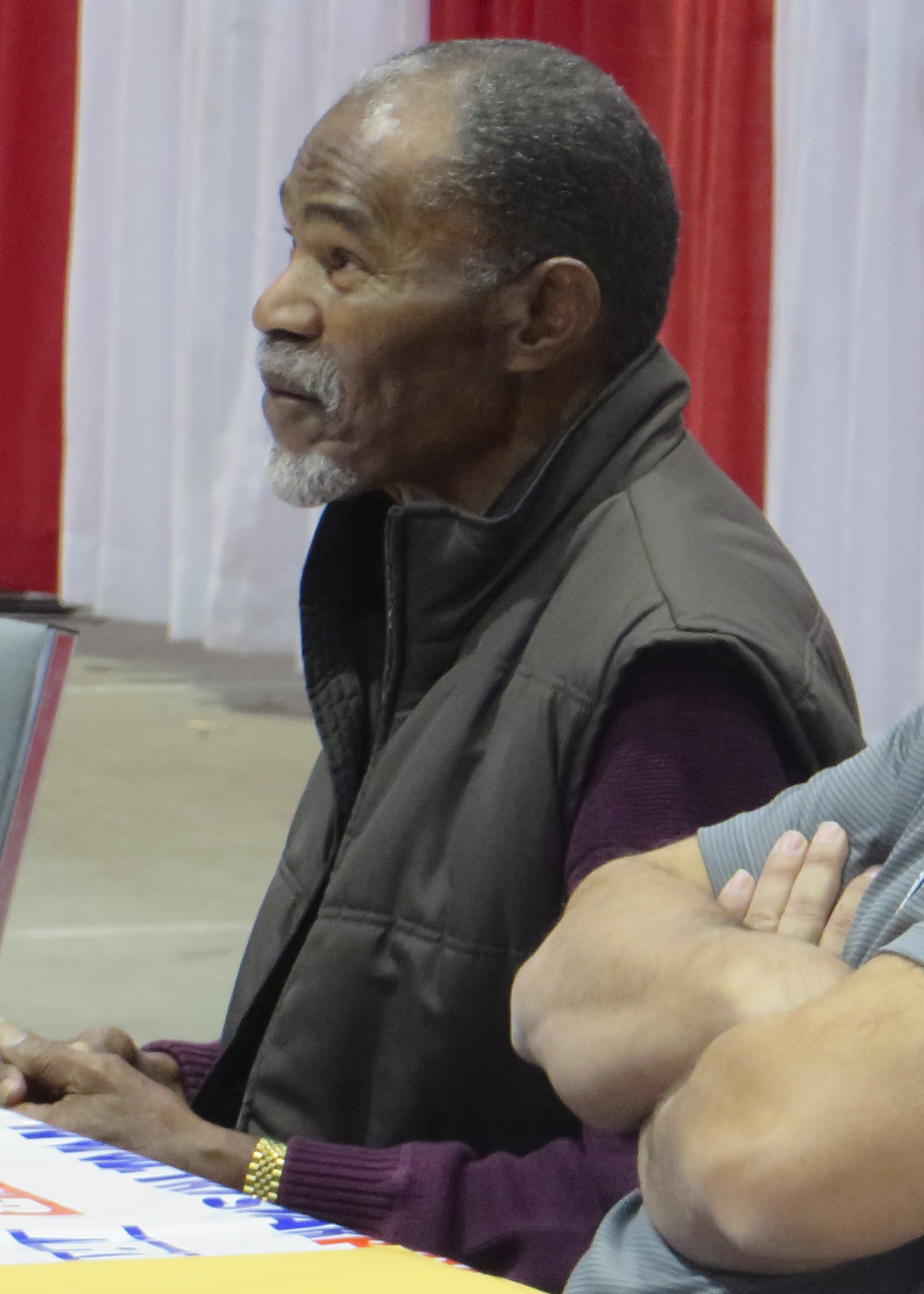 Former NFL cornerback Jimmy Johnson signs autographs at a Houston sports collectors show in January 2014.